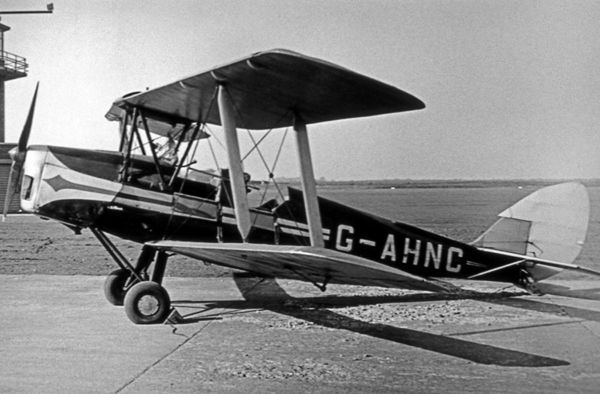 De Havilland DH.82A Tiger Moth of Lancashire Aero Club at Barton Aerodrome Manchester in October 1952